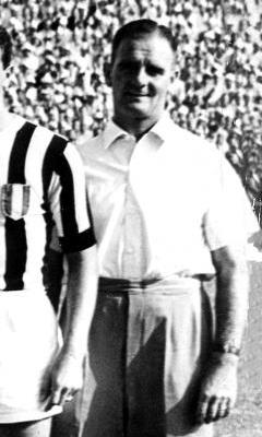 English football manager Jesse Carver with Juventus FC in the 1950–51 season.